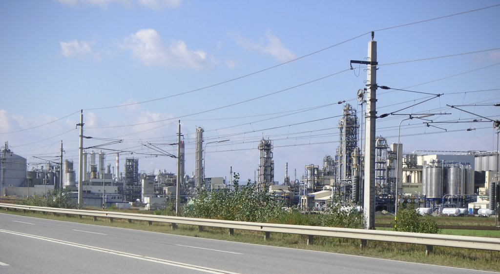 Oil refinerie near Schwechat, Lower Austria